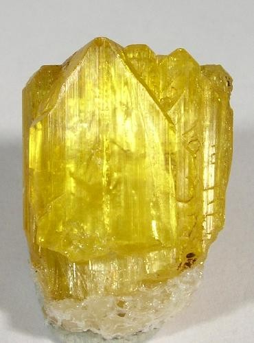 Legrandite Locality: Ojuela Mine, Mapimí, Municipio de Mapimí, Durango, Mexico (Locality at ) Size: 1.6 x 1.2 x .8 cm. Legrandite is one of the holy grails of Mexican minerals, and this has all the intense yellow color and fabulous luster that you could ask for. What is also attractive about this thumbnail is the front part of the cluster is a beautiful bladed crystal, while the back is a series of the more classic radial sprays of the crystals.